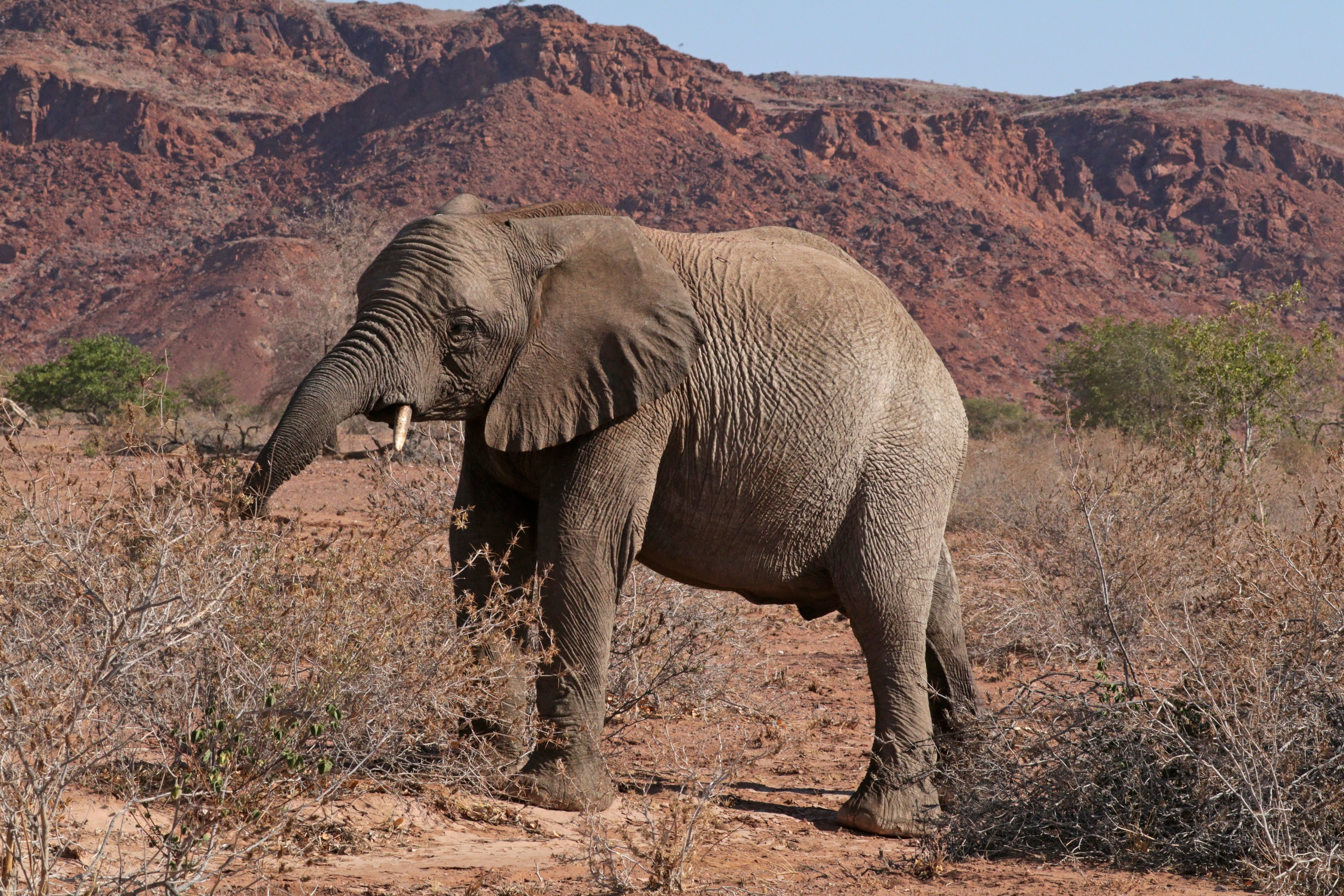 Desert elephant (Loxodonta africana) young female, Damaraland, Namibia